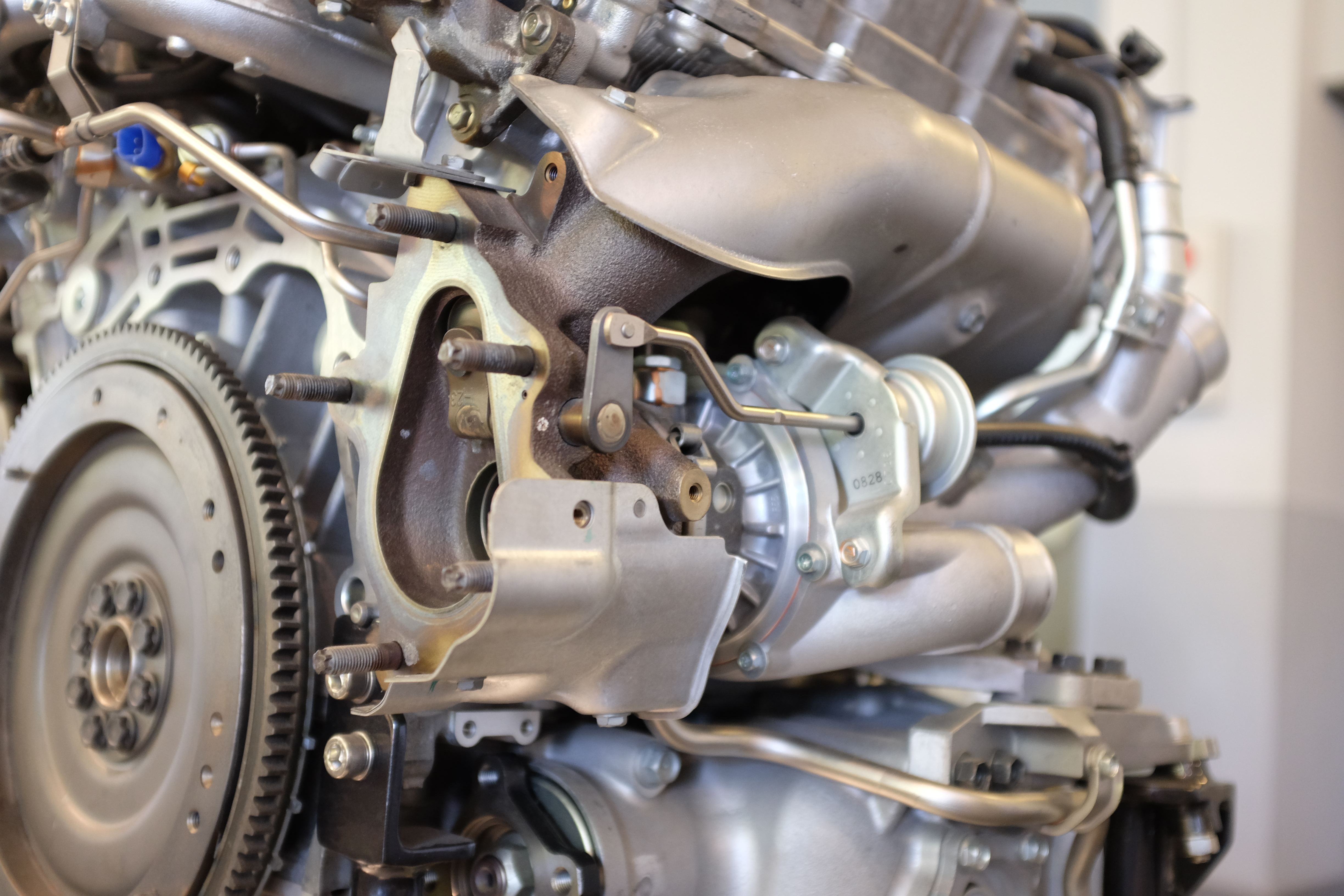 Nissan VR38DETT Engine at Nissan Engine Museum in Yokohama, Japan